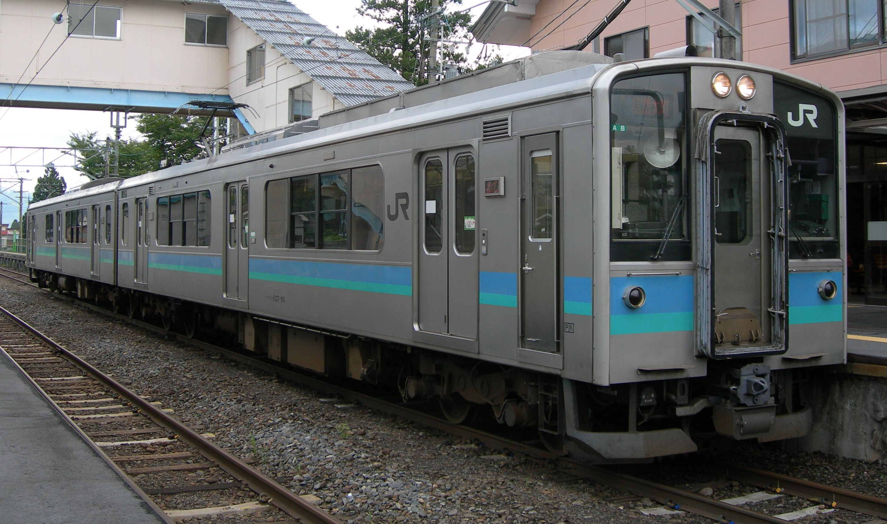 JR East E127-100 series EMU set A8 at Kamishiro Station in Nagano Prefecture, Japan